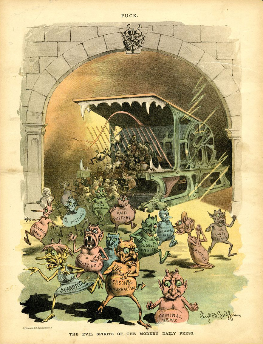 "The Evil Spirits of the Modern Day Press". Puck US magazine 1888; Nasty little printer's devils spew forth from the Hoe press in this Puck cartoon of Nov. 21, 1888.